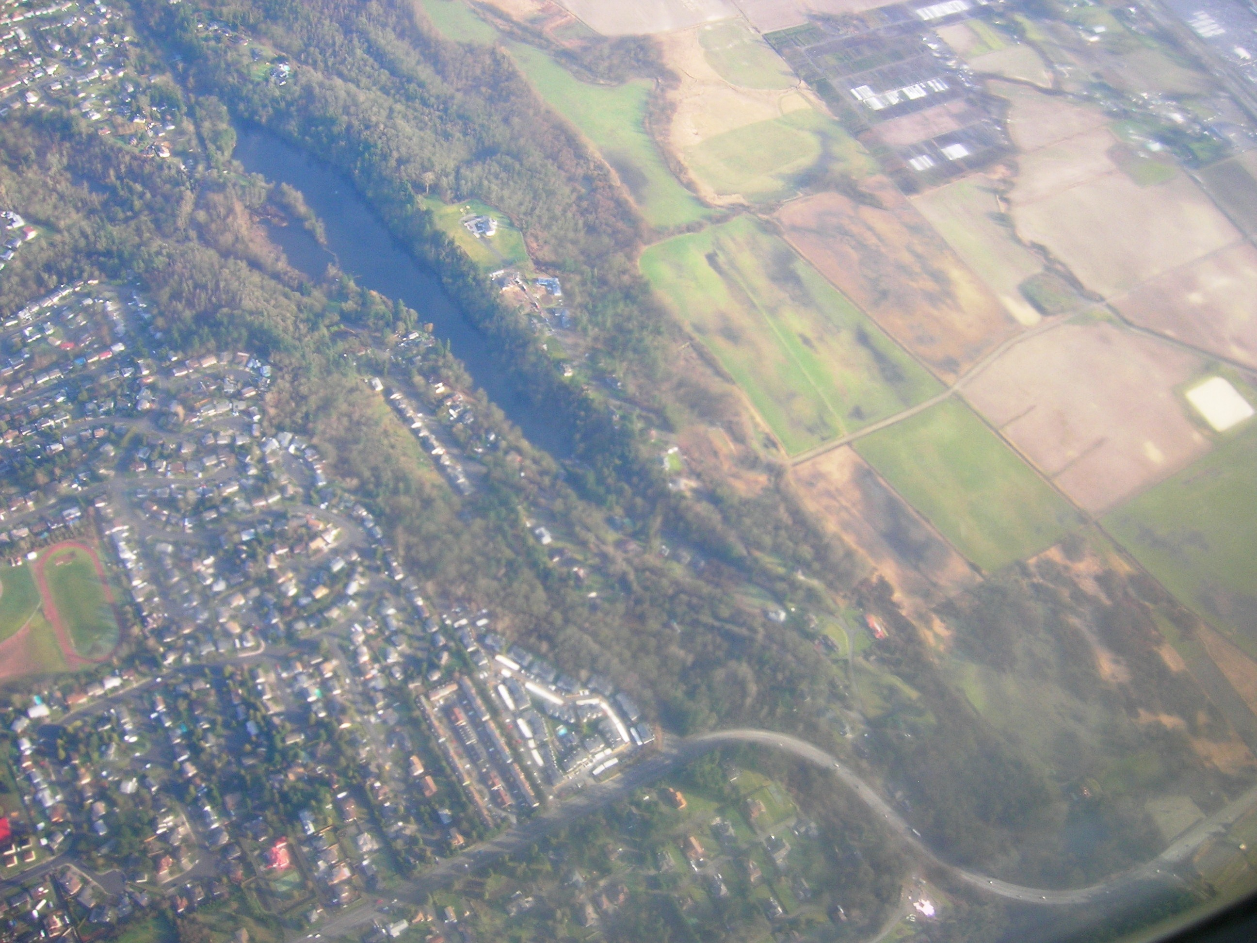 Original caption: “Airborne over Algona, Washington” Specifically appears to be Lake Fenwick, which straddles the border of Kent, Washington.